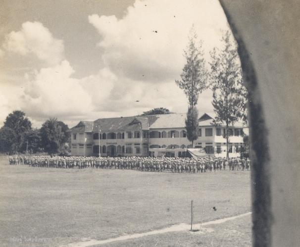 visuttharangsi school